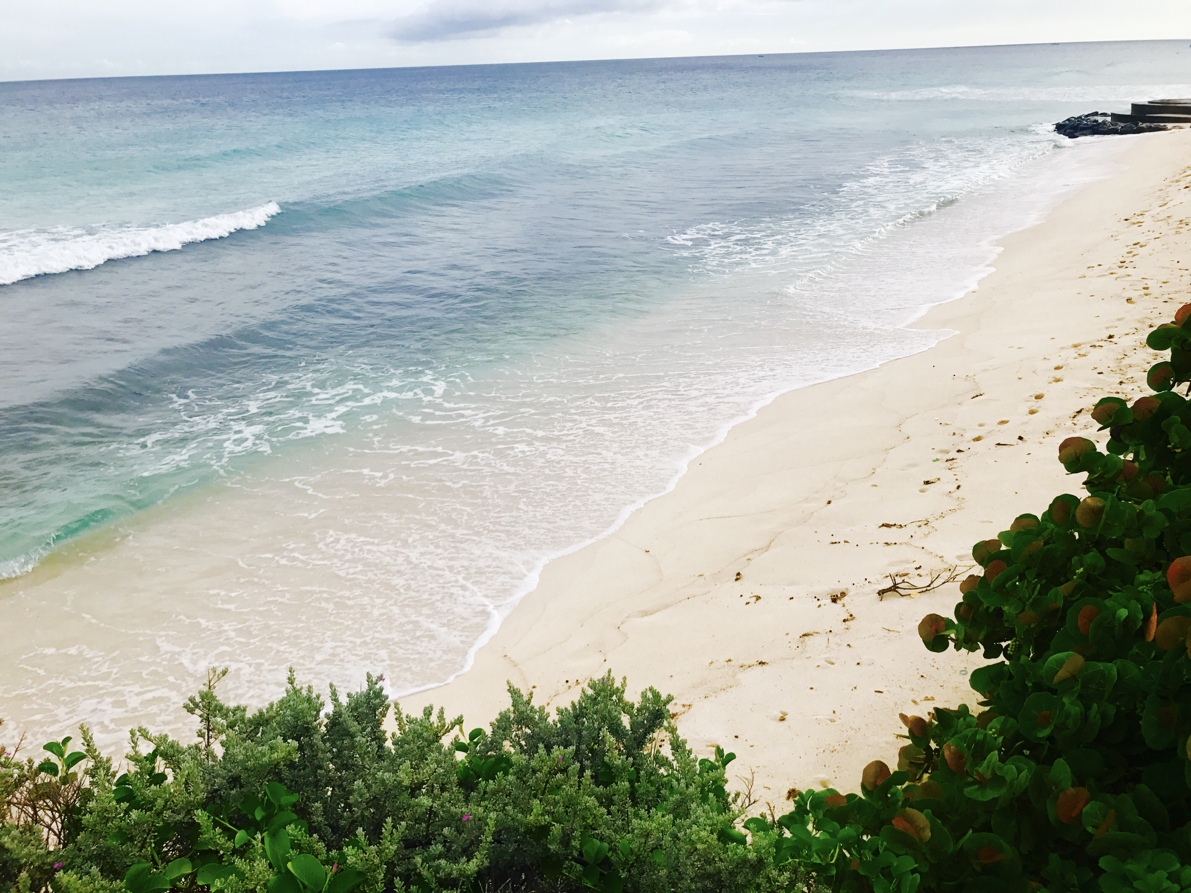 A beach